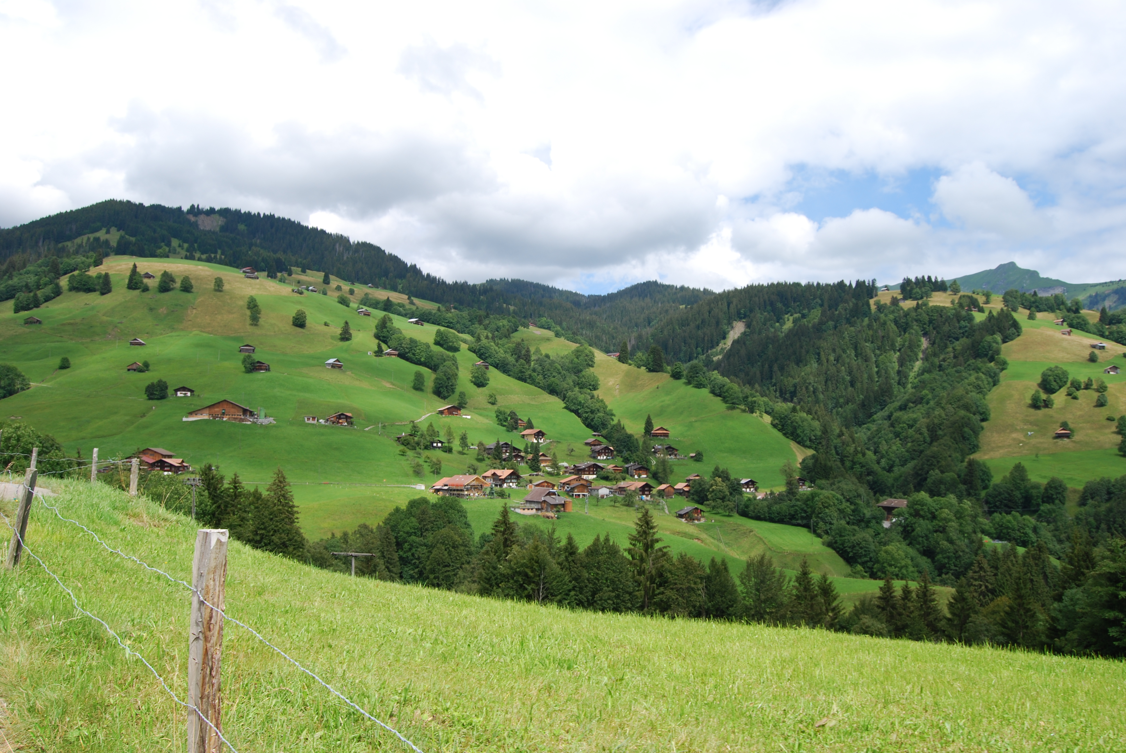 Habkern, canton of Bern, SwitzerlandEsperanto: Habkern, Kantono Berno, Svislando